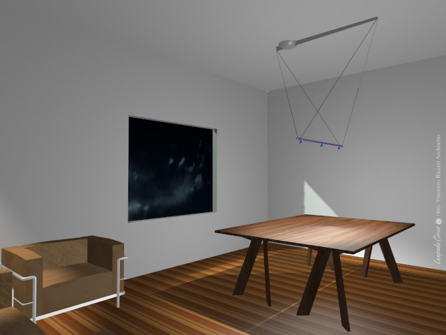 Rendering of 360° adjustable lamp (Table by Börge Lindau, Couch by Le Corbusier)